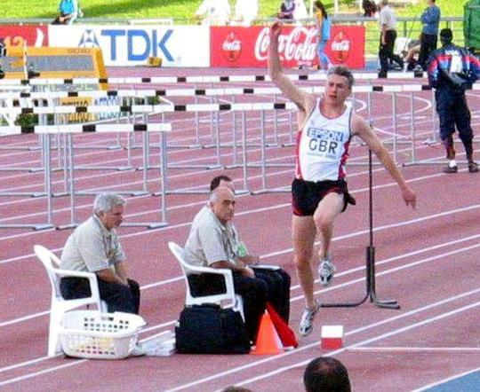 Jonathan Edwards